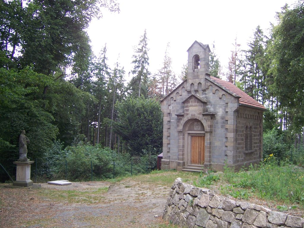 Popovičky, Nebřenice, chapel.